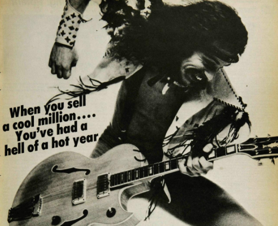 Trade ad for Ted Nugent's "Free-For-All".